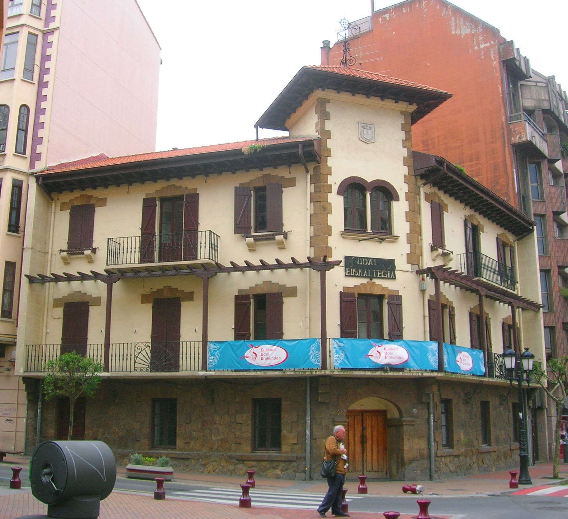 Current Barakaldo Town Euskaltegi (school of Basque language for grown people), former see of Eusko Abertzale Ekintza / Acción Nacionalista Vasca